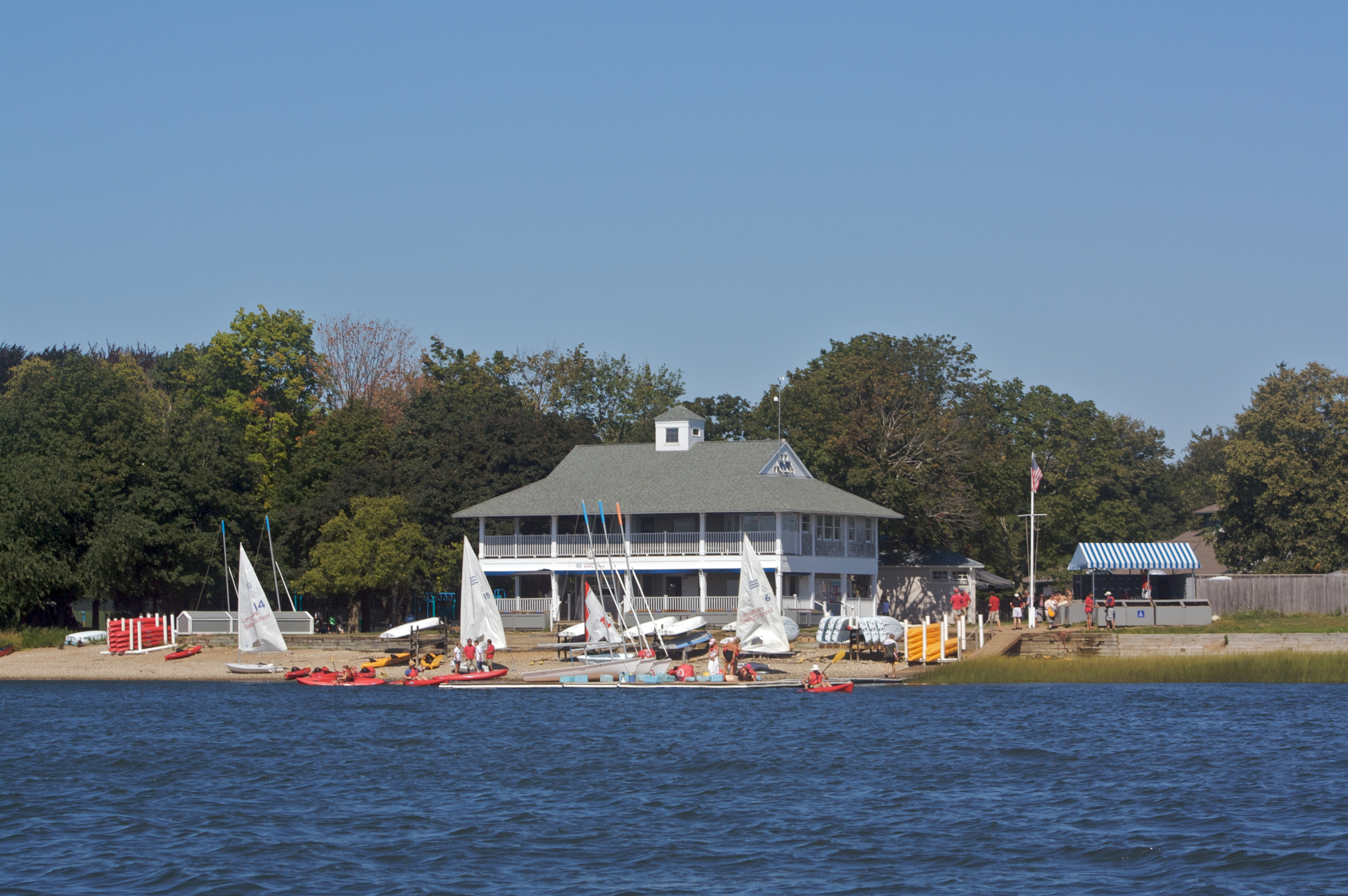 Longshore Sailing School (editor note: Which location?)